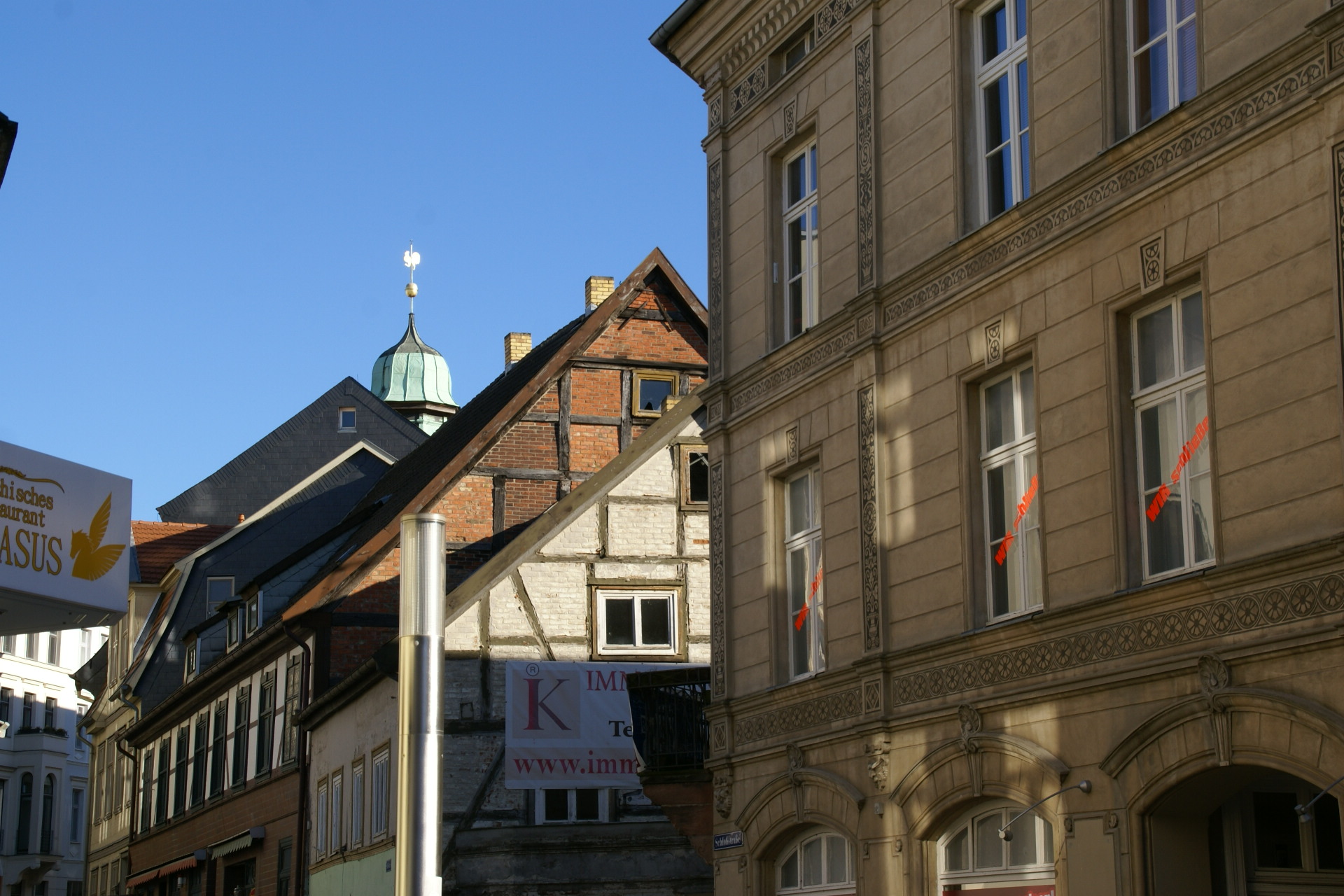 Upper end of Schloßstraße (Castle Street) in Schwerin, Germany